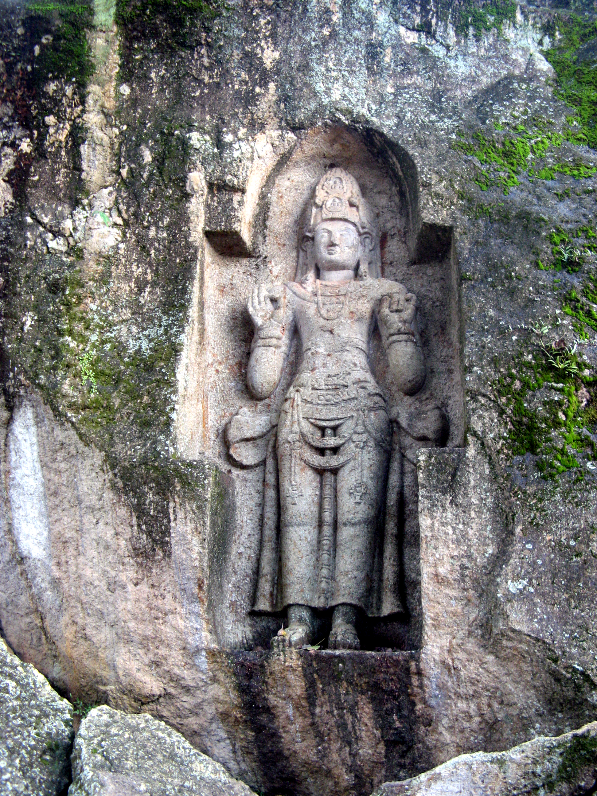 The 3m (10ft) tall Bodhisattva is sculpted in bas-relief within a hillside niche. Avalokiteshvara is identified by his typical iconography and details of costume, including the seated Buddha in his crown. Signage on-site dates the figure to the 6th century AD; other proposed dates have run as late as the 8th-9th century.